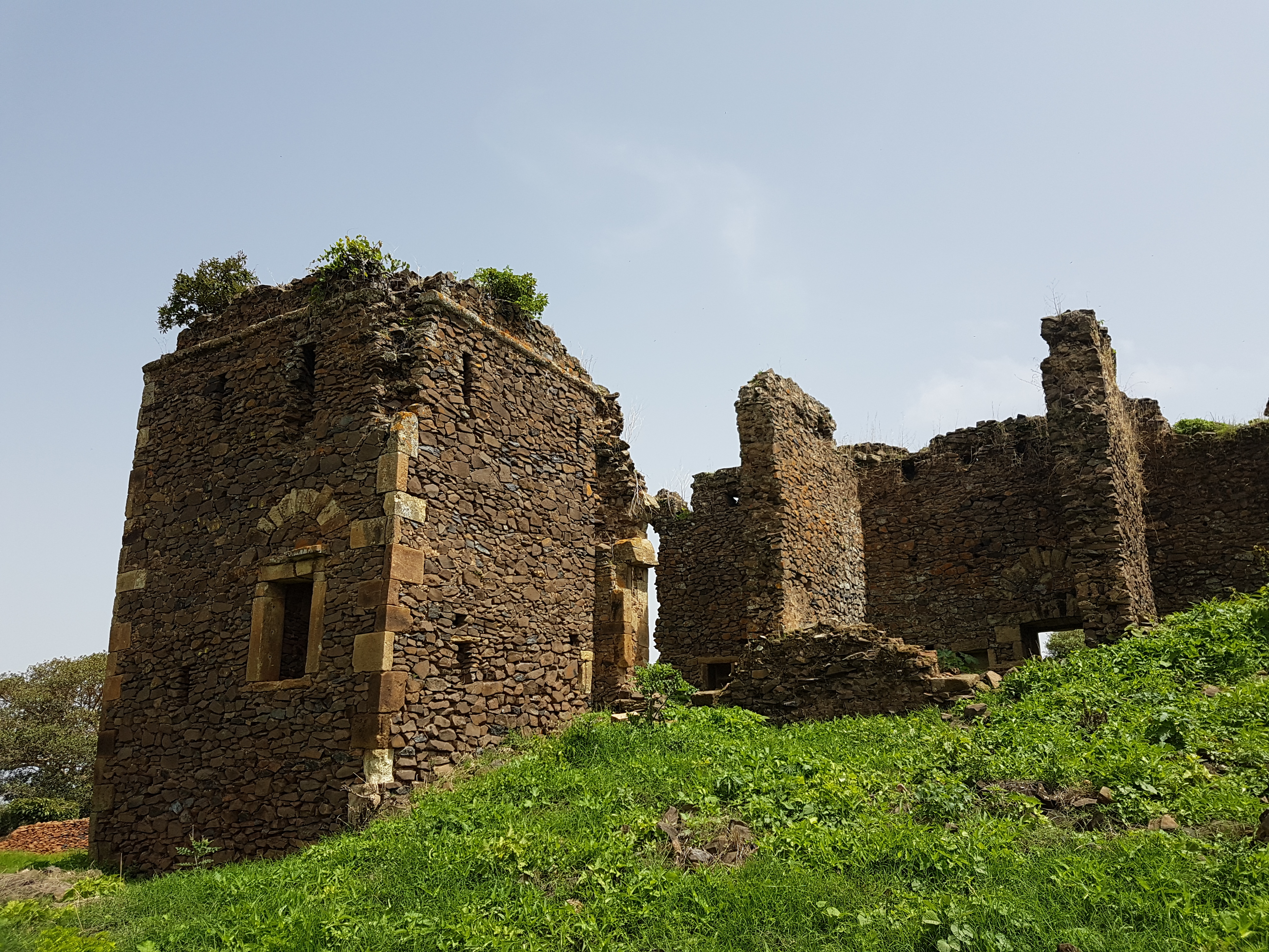 Former Jesuit residence in Gorgora Nova, Amhara Region, Ethiopia. July 2018.